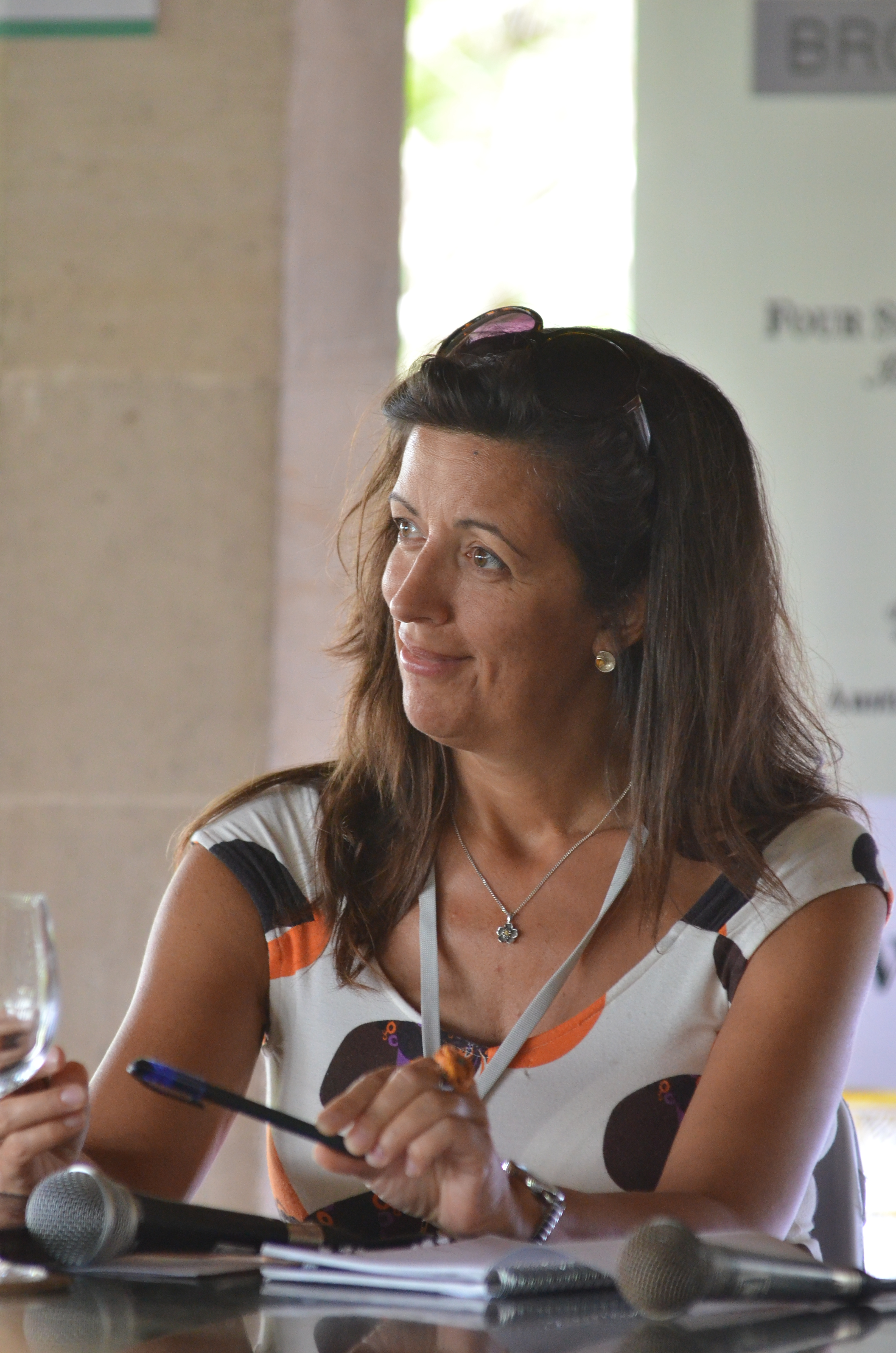 Ubud Writers & Readers Festival 2012. Image credit Anggara Mahendra.